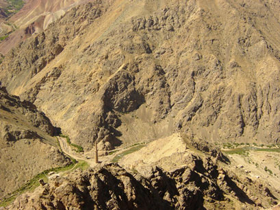 The Minaret of Jam, seen from Koh-e Khara